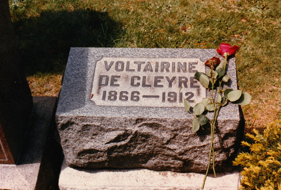 taken at the 100 anniversary of the Haymarket affair